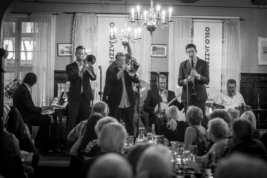 Jazzin’ Babies at Stortorvets Gjæstgiveri. The concert was part of the Oslo Jazz Festival in Norway and took place on 19. August 2016. Lineup: Kristoffer Kompen (trombone) Erik Eilertsen (trumpet) Lars Frank (clarinet) Torgeir Koppang (piano) Jermund Kristiansen (double bass) Torbjørn Kristiansen (banjo) Per Frydenlund (drums)